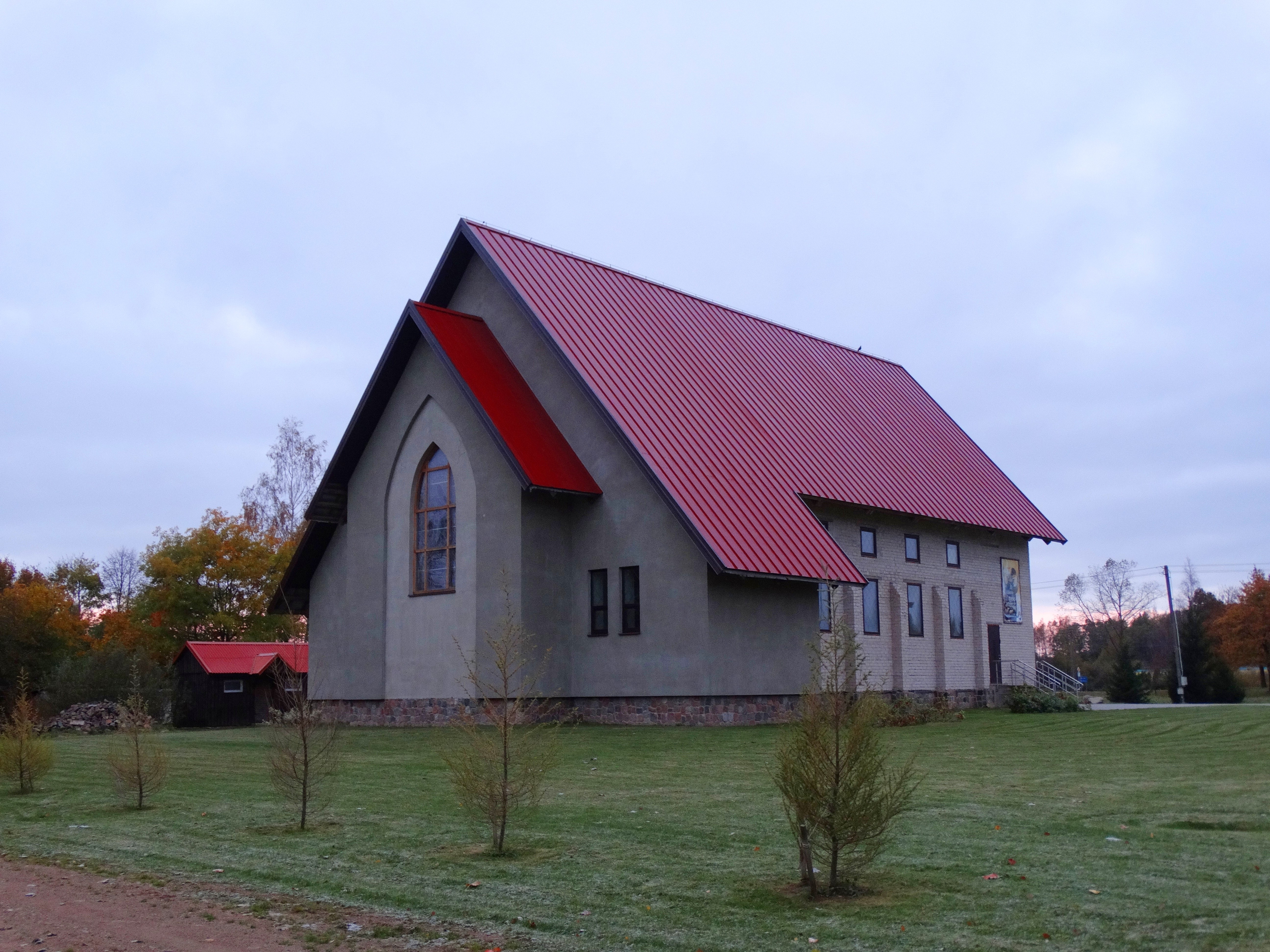 St. Matthew's Catholic Church in Kūlupėnai, Kretinga District, Lithuania